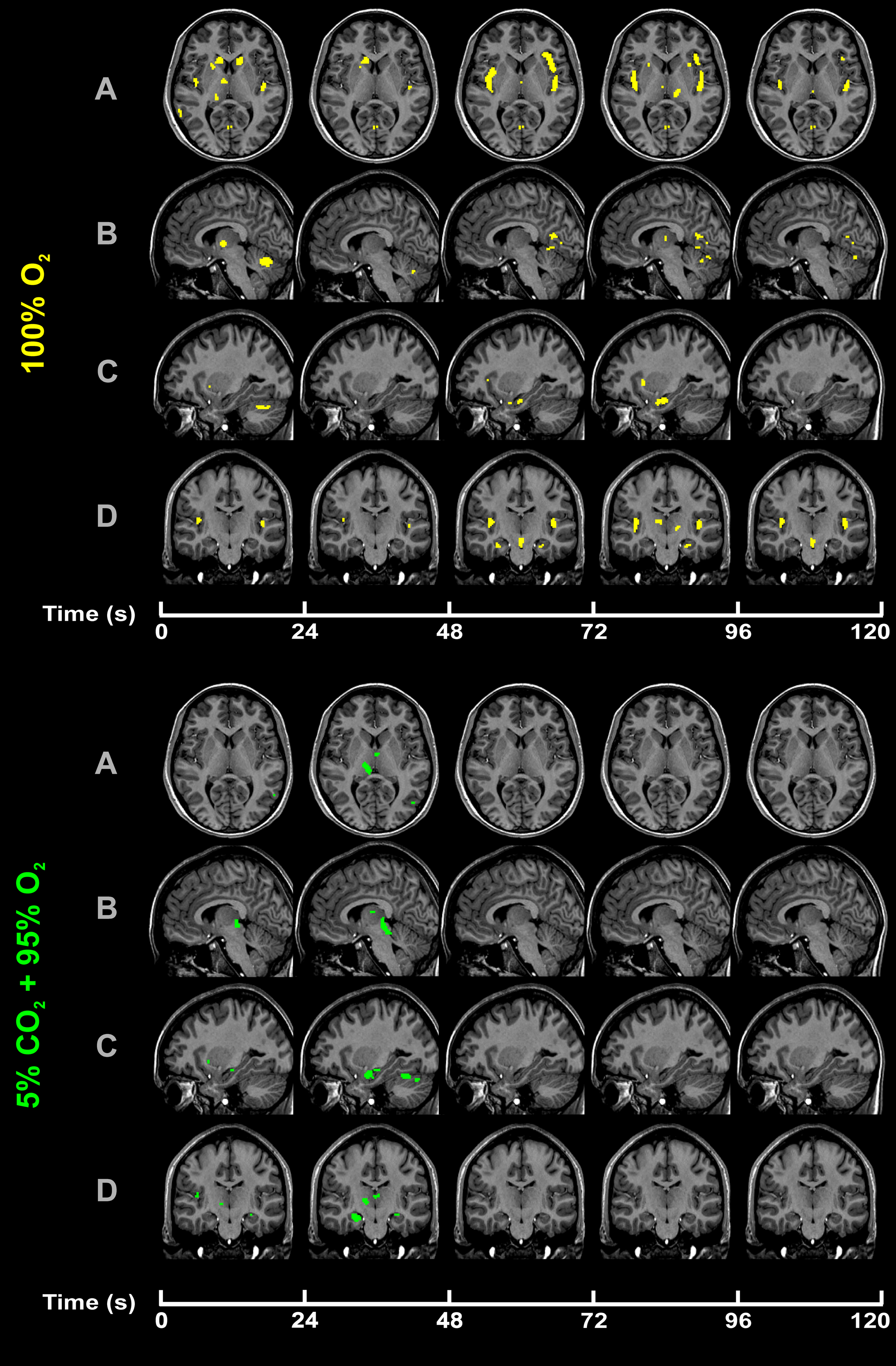 An experiment on the effects of hyperoxia and combined hypercapnia/ hyperoxia on brain metabolism, as evidenced by fMRI. For details, see original figure and caption.